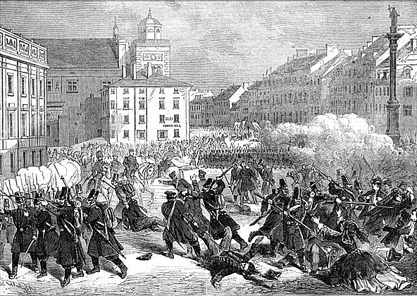 Russian Army attacking Polish civilians in Warsaw 1861